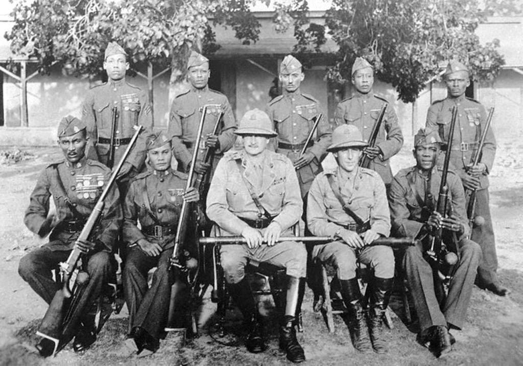 Haiti's 1924 Olympic rifle team; Col Douglas MacDougal pictured front center